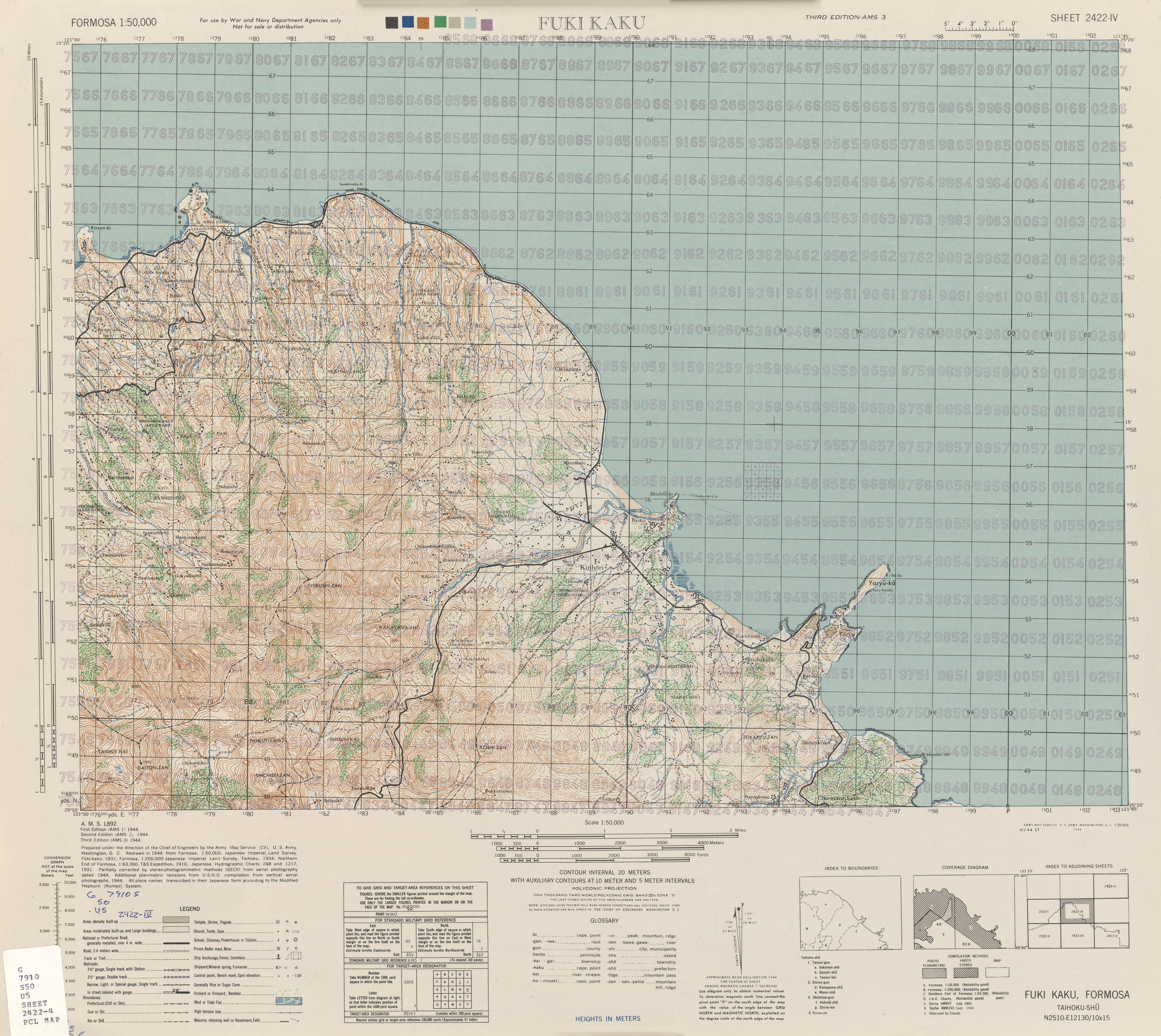 Map from Formosa (Taiwan) 1:50,000 AMS Series L792